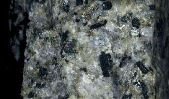 Diorite form Hodruša, Štiavnické vrchy, Slovakia.